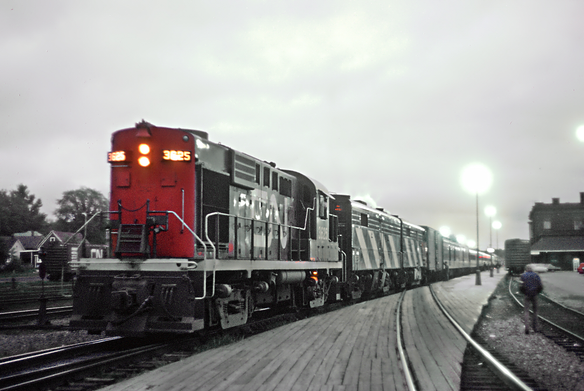 A Roger Puta Photograph